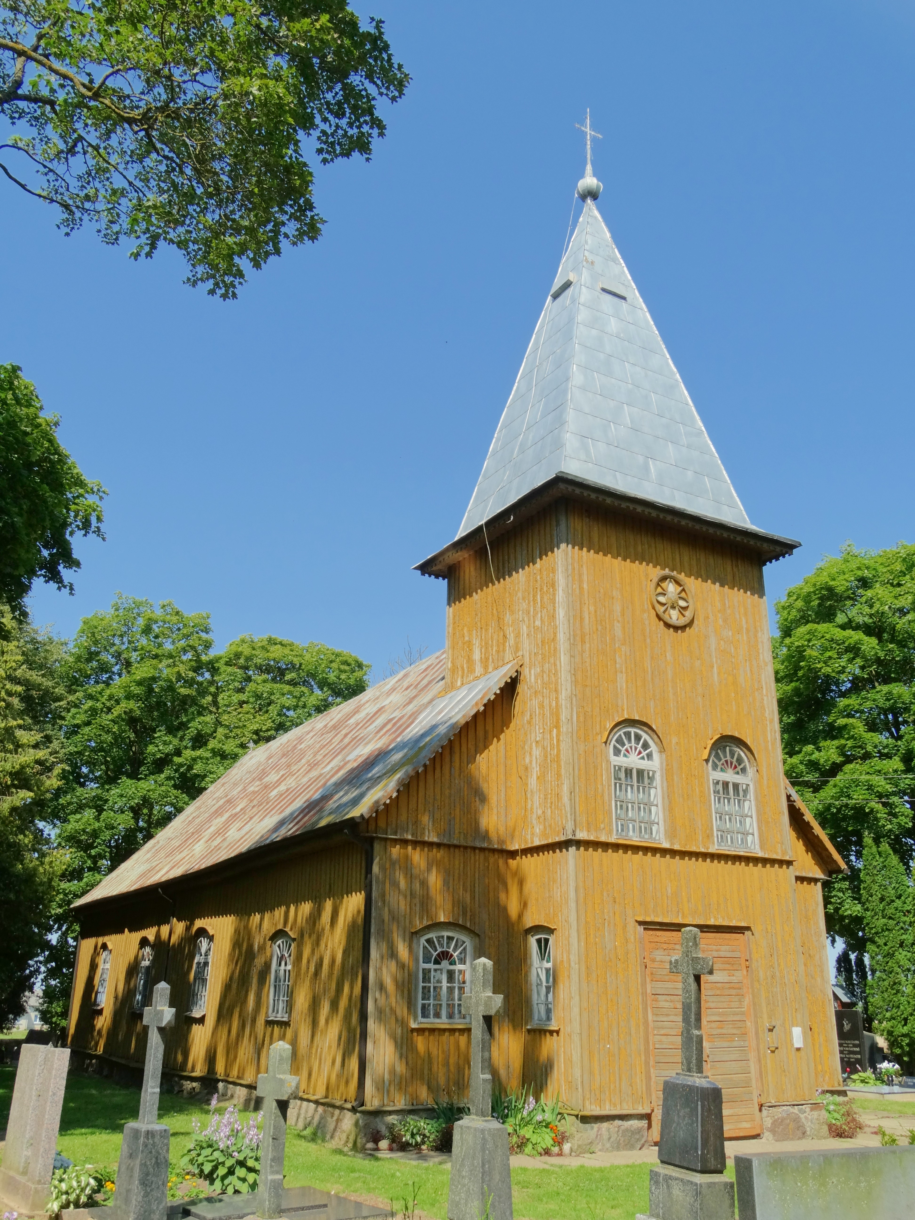 Saint Stanislaus Kostka Church in Gasčiūnai, Joniškis district, Lithuania